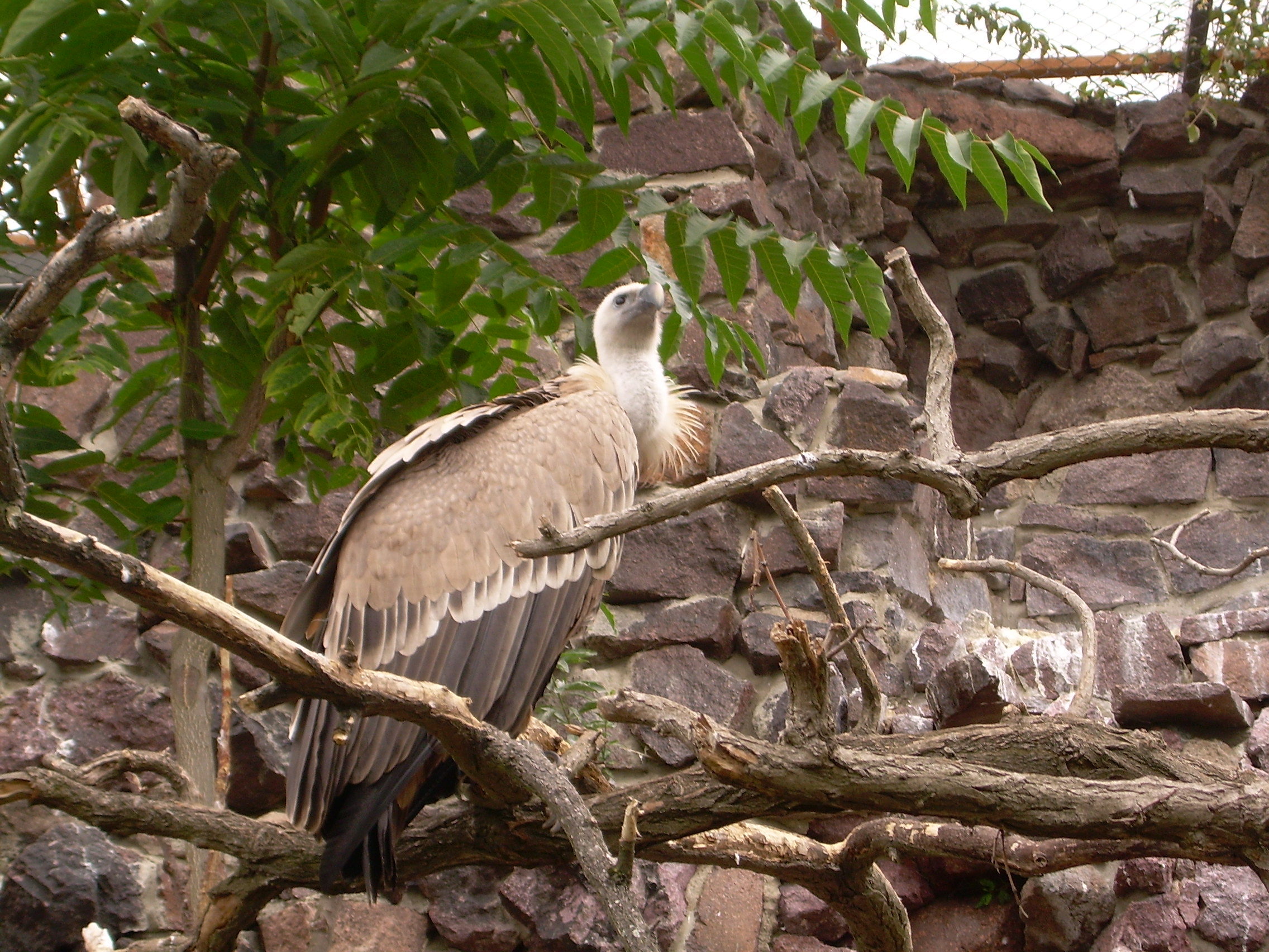 Griffon Vulture, Zoo Halle/Germany